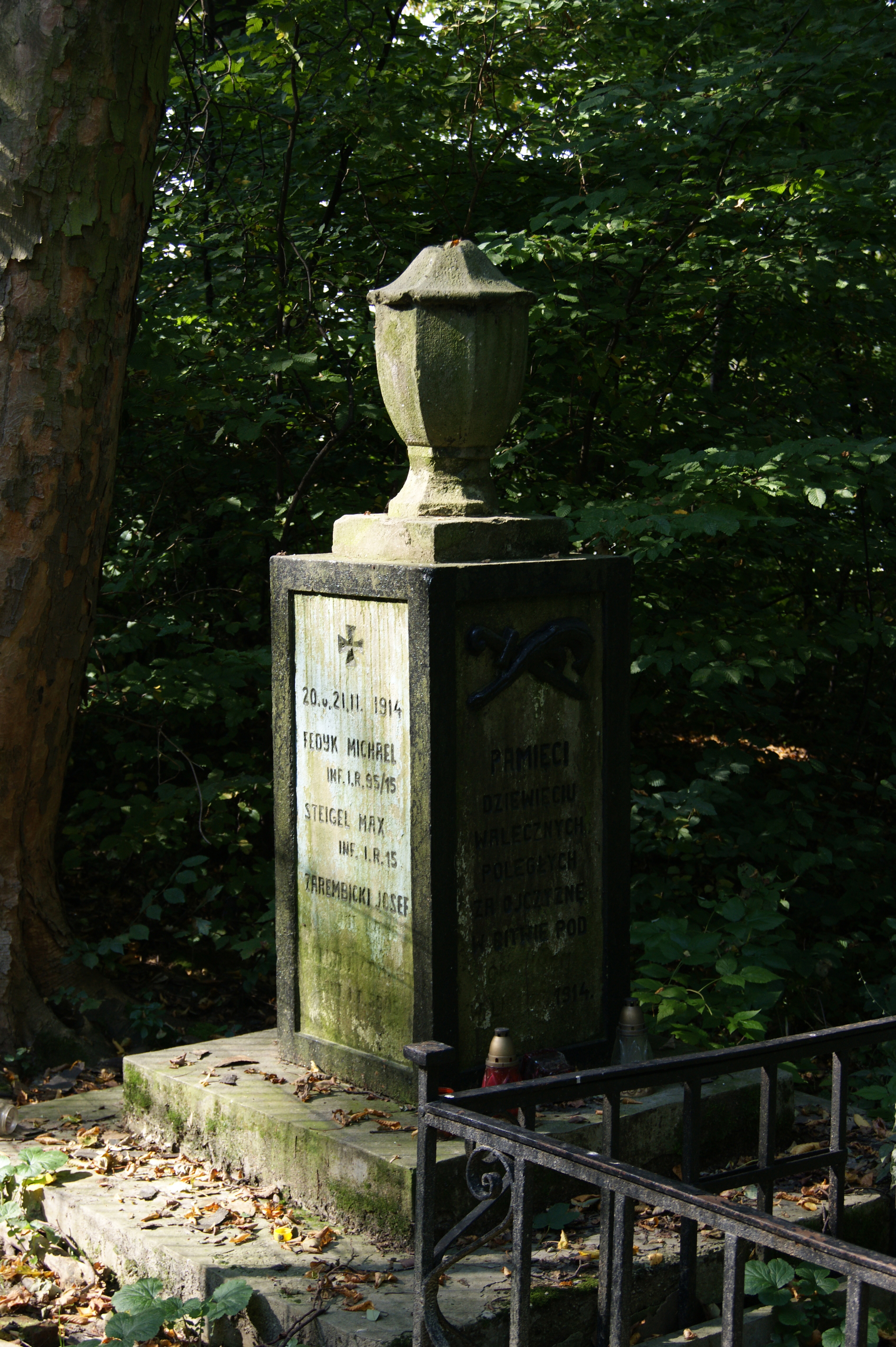 I WW military cemetery 277 Okocim (memorial), Poland